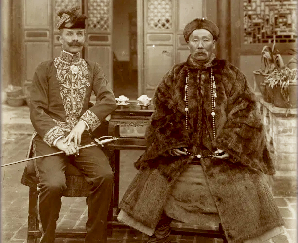 On the right is Su Yuanchun and on the left is Auguste Francois. Auguste francois was a French consul in Longzhou, Guangxi Province, China between December 1895 and December 1899. Su Yuanchun, a famous general officer in China, play a important role in the Battle of Bang Bo. 中文（中国大陆）: 左边坐的是方苏雅，右边是苏元春。方苏雅是一名法国领事。苏元春是清末名将，在中法战争中率部抗击法国军队。